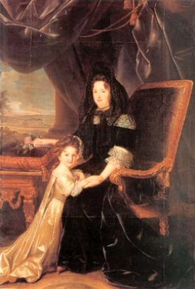 Françoise d'Aubigné, Marquise de Maintenon